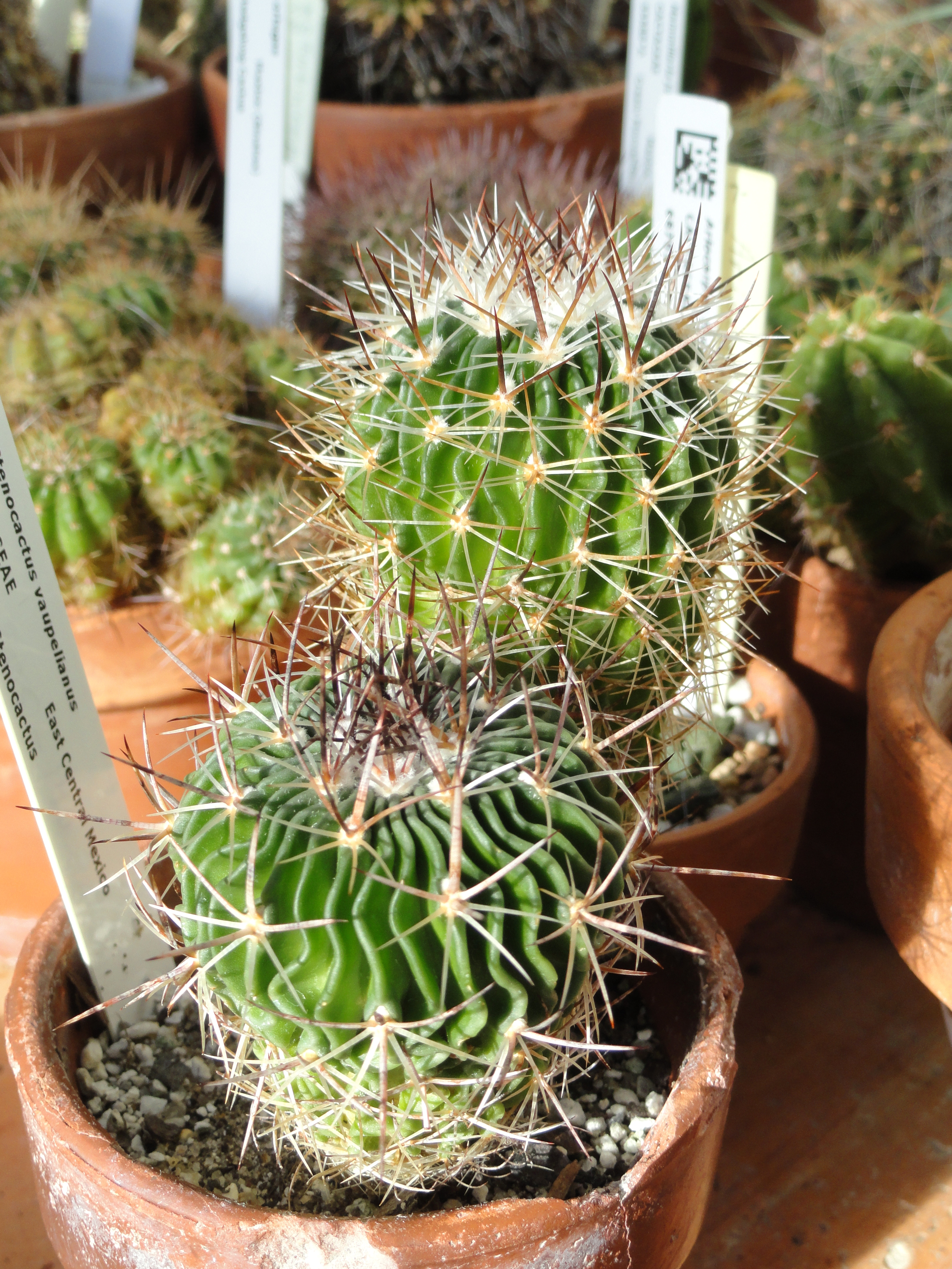 Botanical specimen in the Lyman Plant House, Smith College, Northampton, Massachusetts, USA.